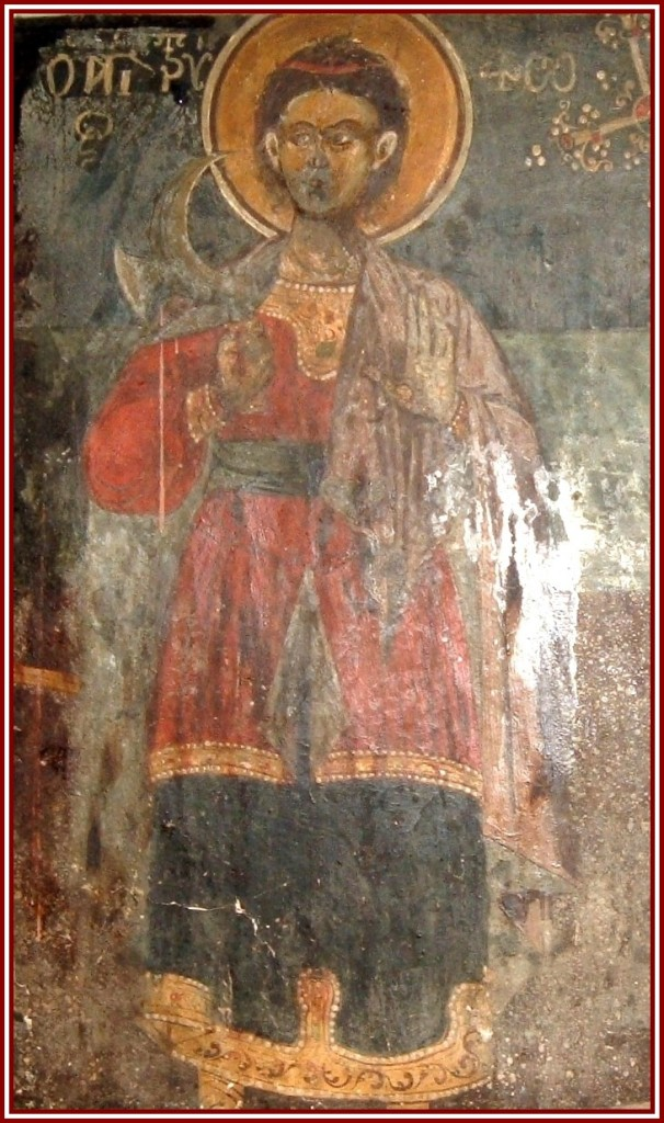 St Trifon Vogatsiko 18 Century